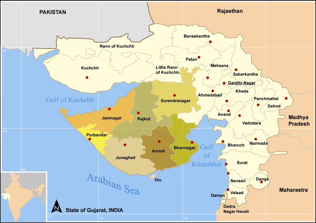 Districts of Saurastra region of Gujarat State (India). Note: co-ordinates are estimated, and may not be exactly accurate.